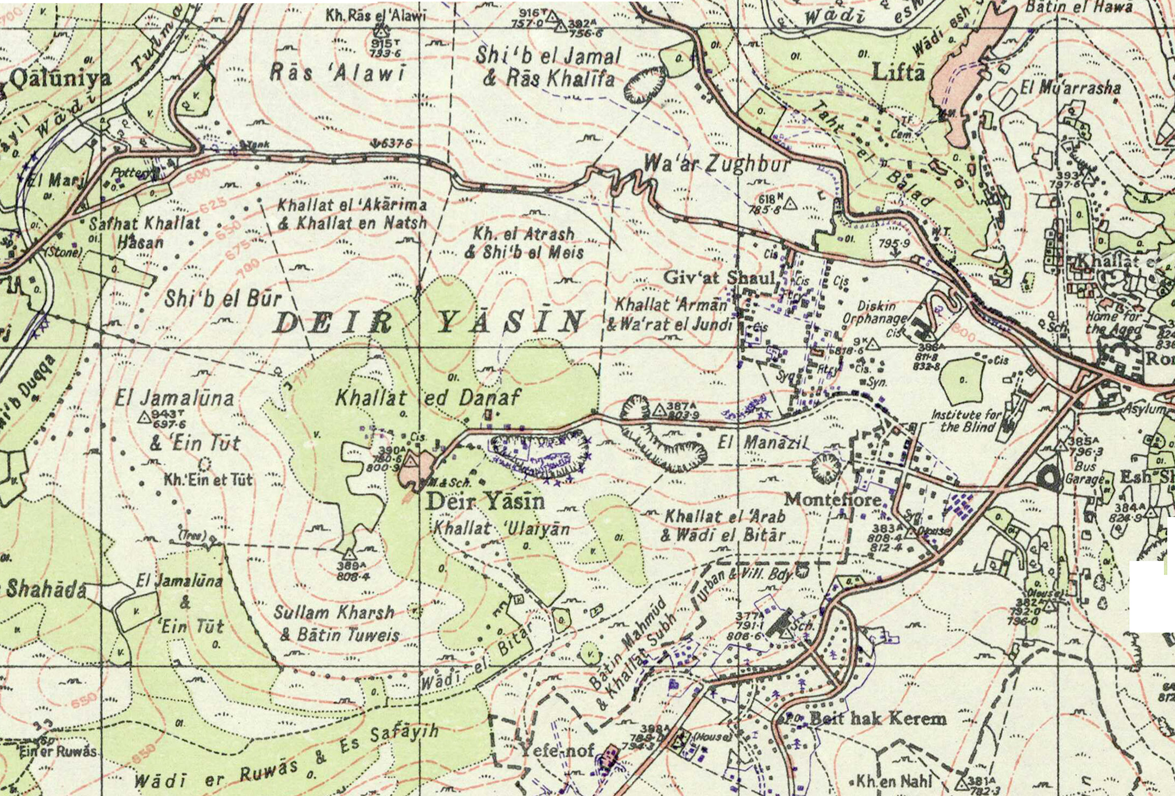 The Palestinian village of Deir Yassin, on the west fringe of Jerusalem, according to a map updated 1942-1948.